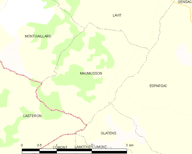 Map of French municipality Maumusson